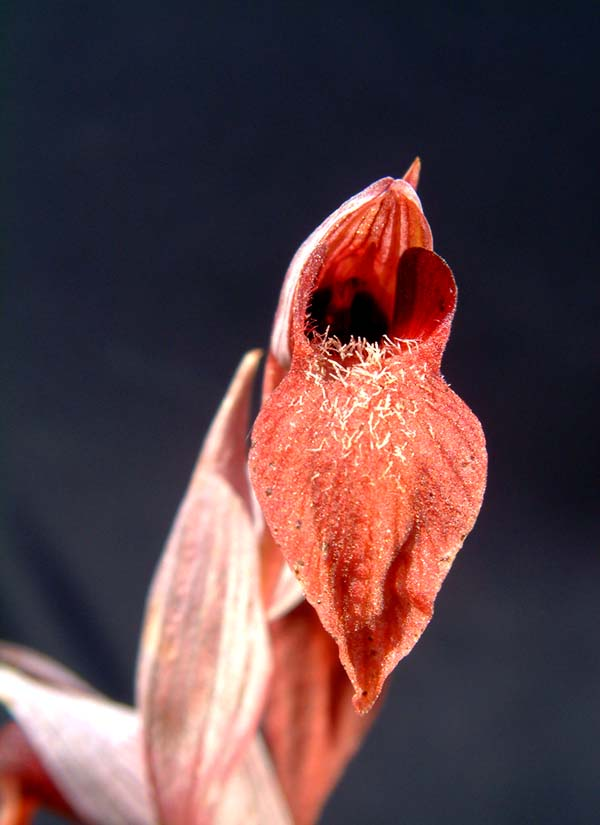 Orchid Serapias istriaca, Europe, Croatia, Istra peninsula ... by K. Korlevic